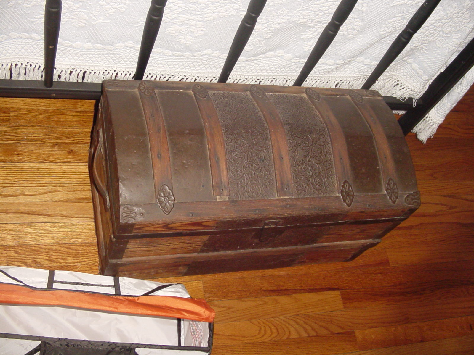 An Antique Wooden Chest